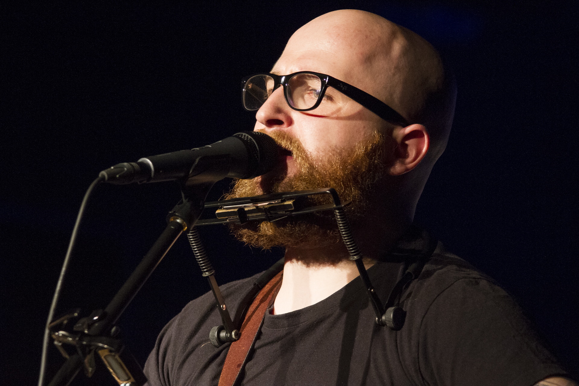 Martin Spieß, 2012 in Wuppertal, Germany